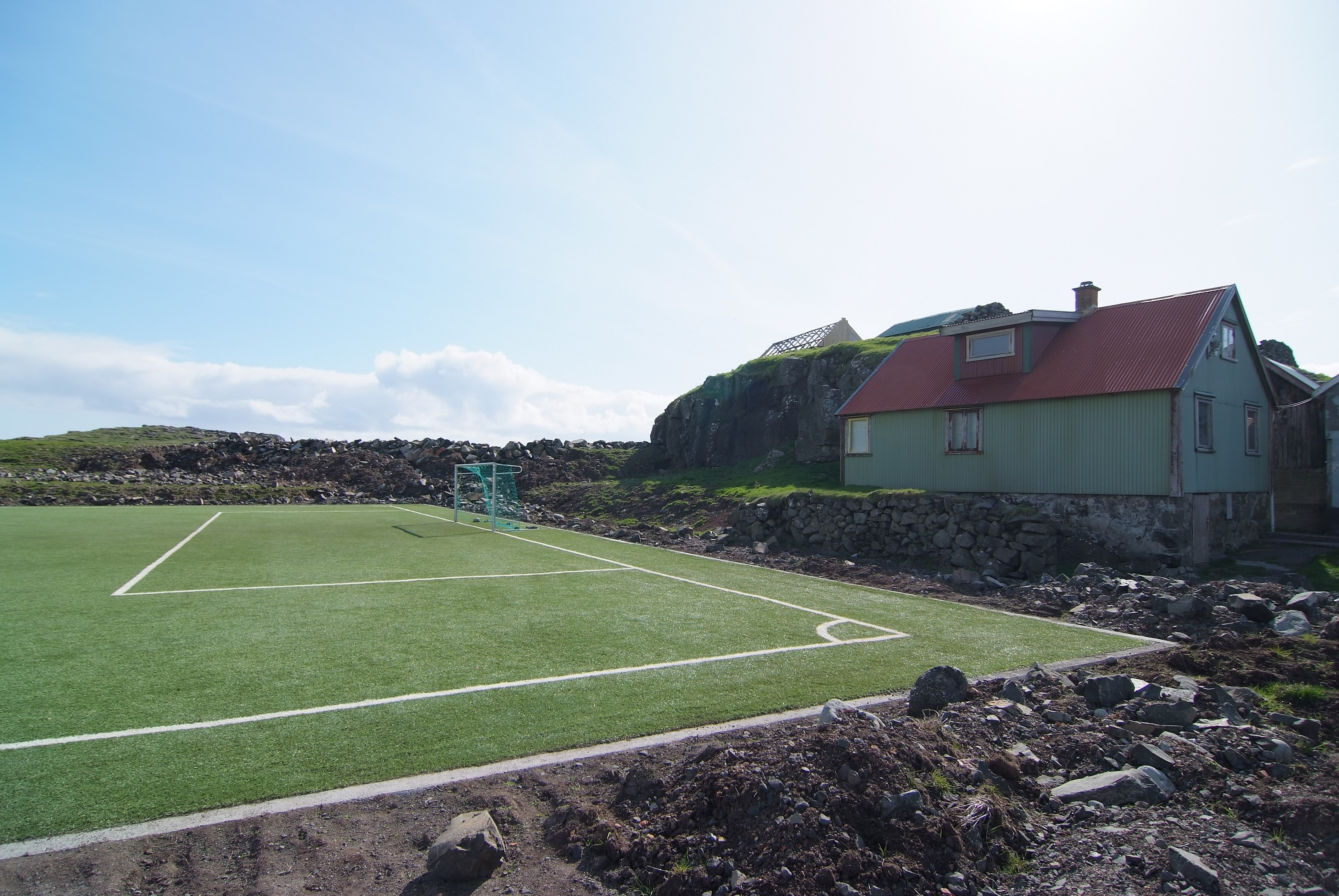 Nólsoy football field